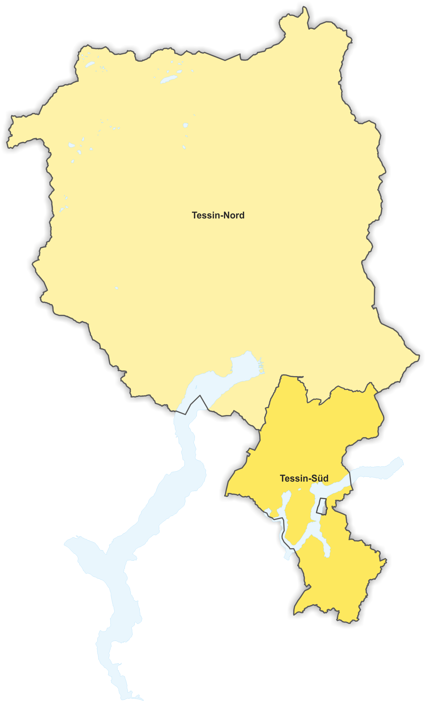 National council constituencies in the canton of Ticino from 1911 to 1917